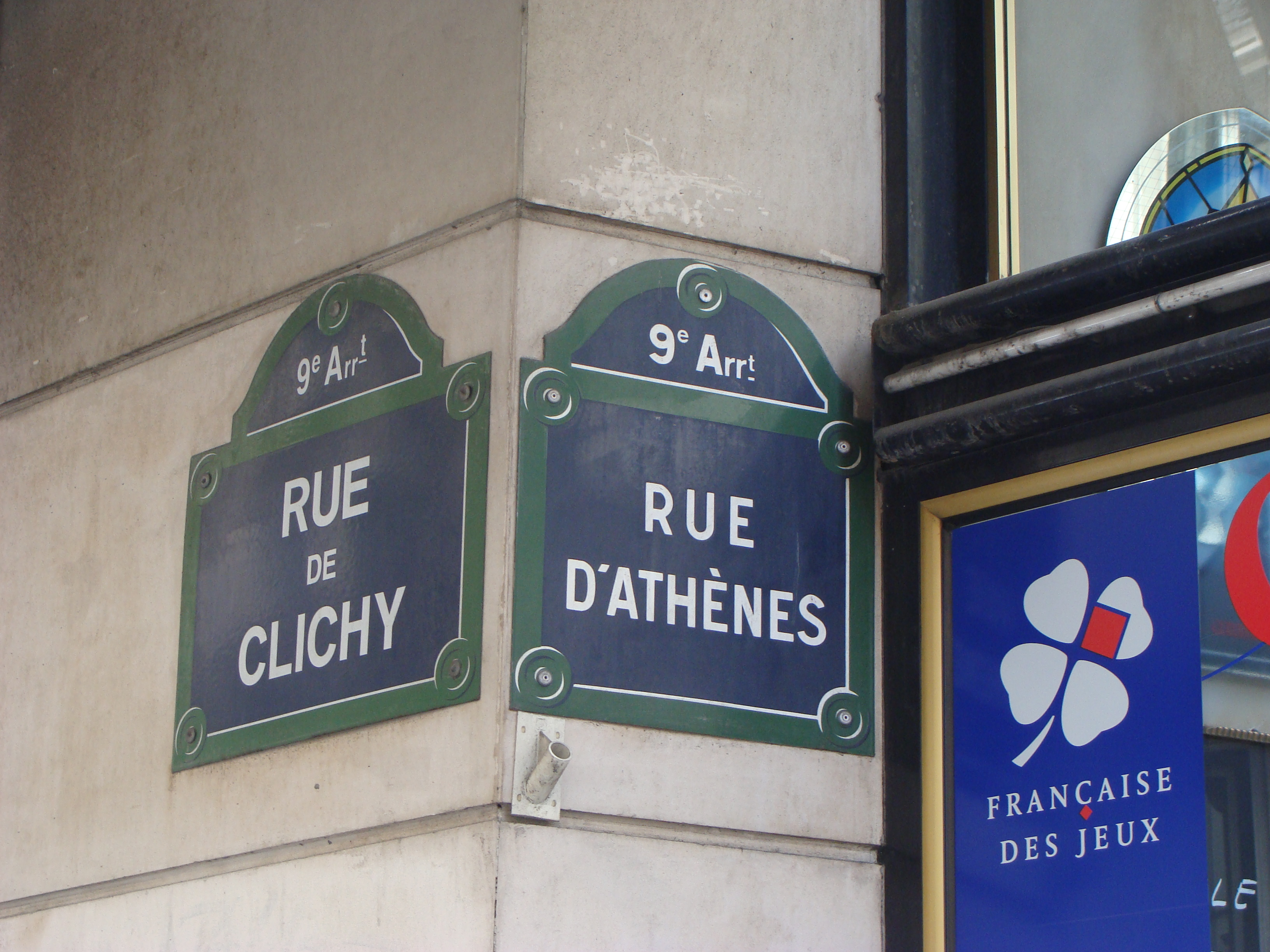 Rue d' Athenes, Paris